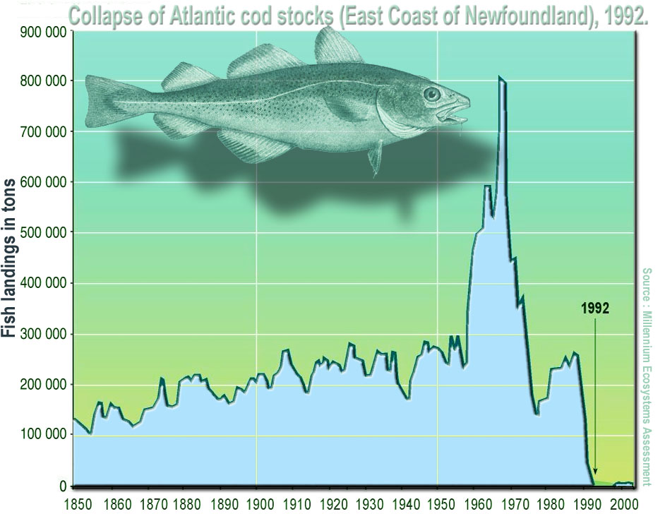 Collapse of Atlantic cod landings off the East Coast of Newfoundland in 1992. From the late 1950s, offshore bottom trawlers began exploiting the deeper part of the stock, leading to a large catch increase and a strong decline in the underlying biomass. Internationally agreed quotas in the early 1970s and, following the declaration by Canada of an Exclusive Fishing Zone in 1977, national quota systems ultimately failed to arrest and reverse the decline